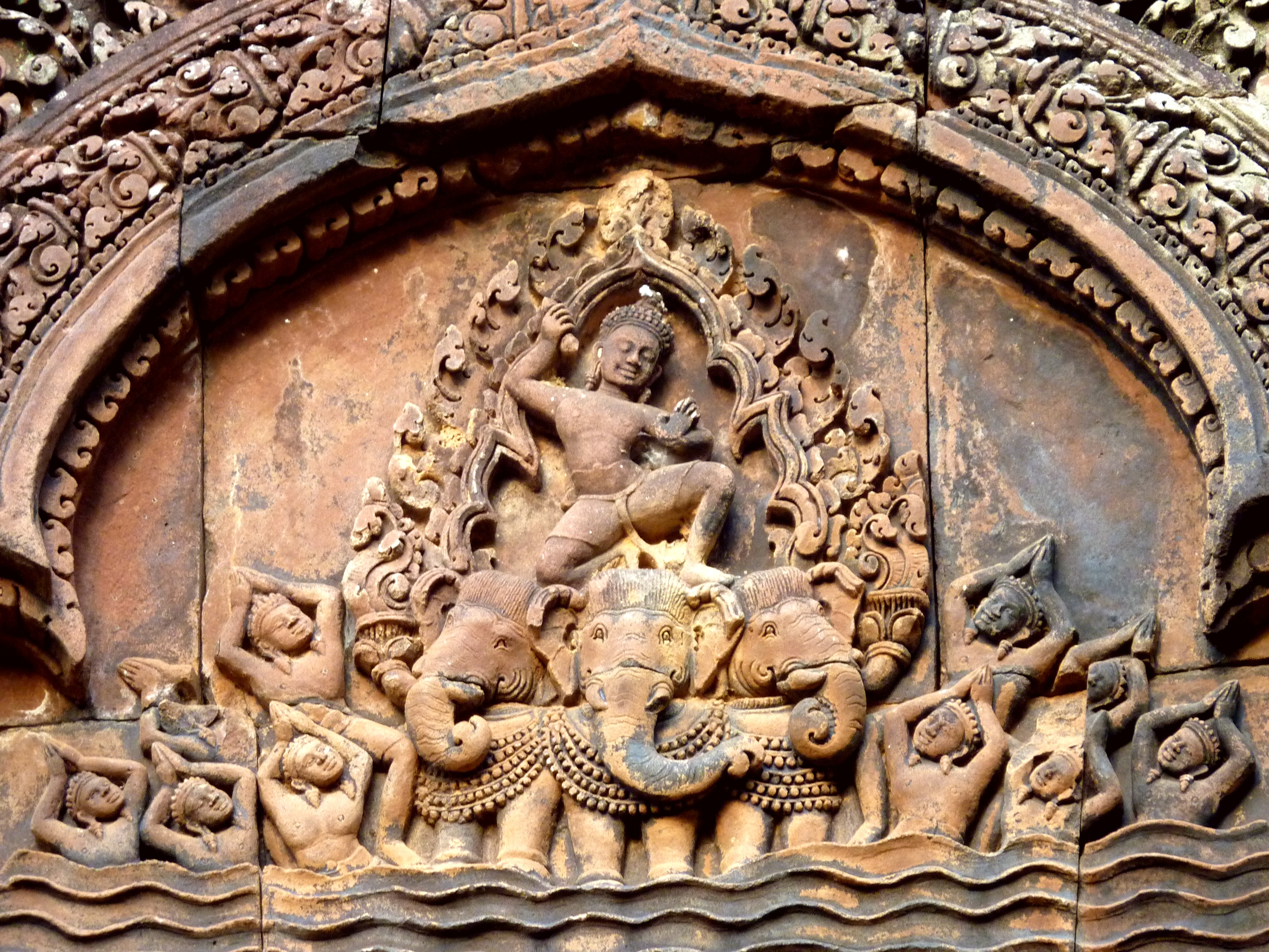 032 Indra on Airavata at Banteay Srei Photograph from Banteay Srei, Angkor in Cambodia taken by Anandajoti.